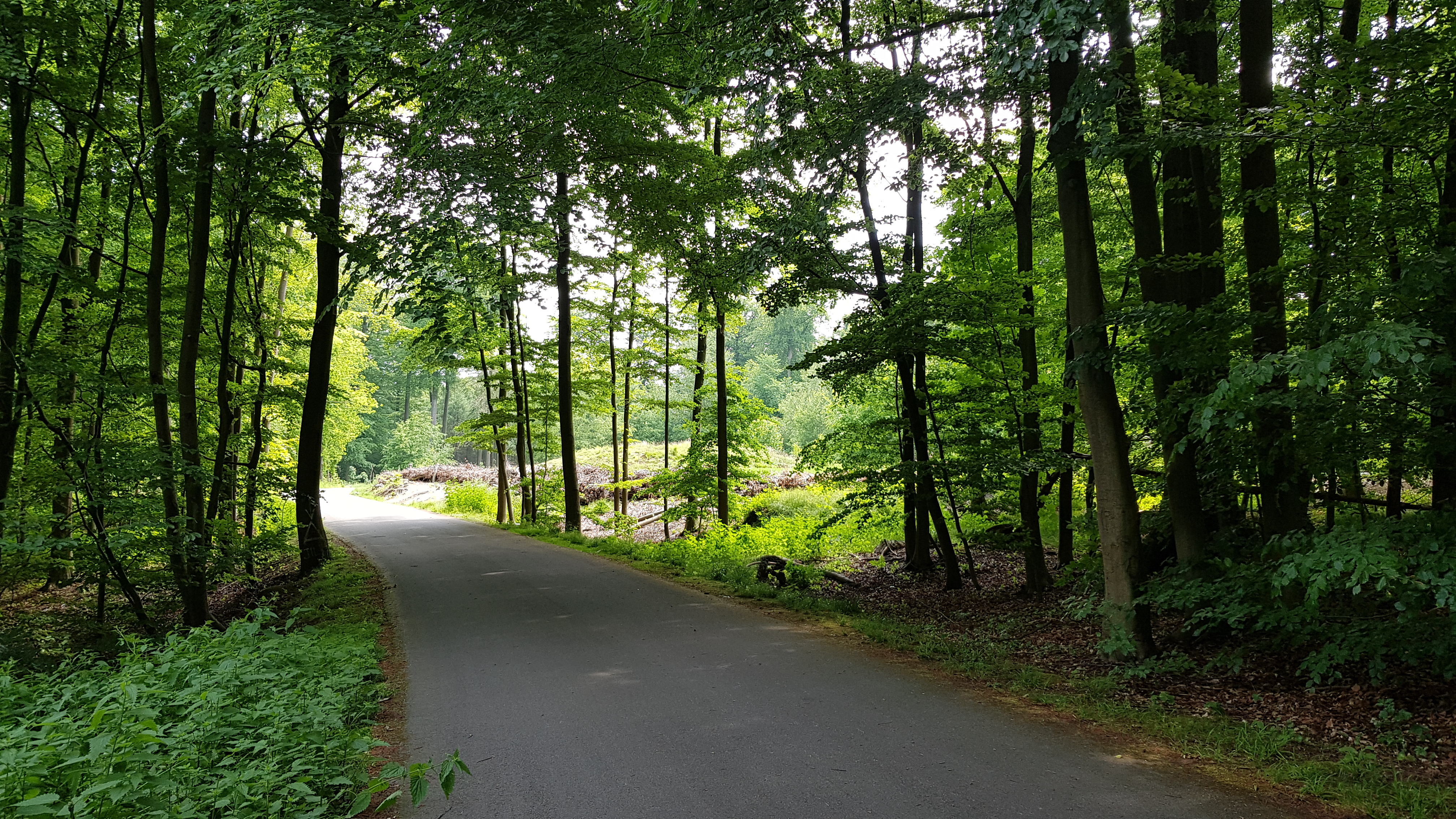 burial mounds in Sonian Forest near Bosvoorde/Boitsfort, Belgium